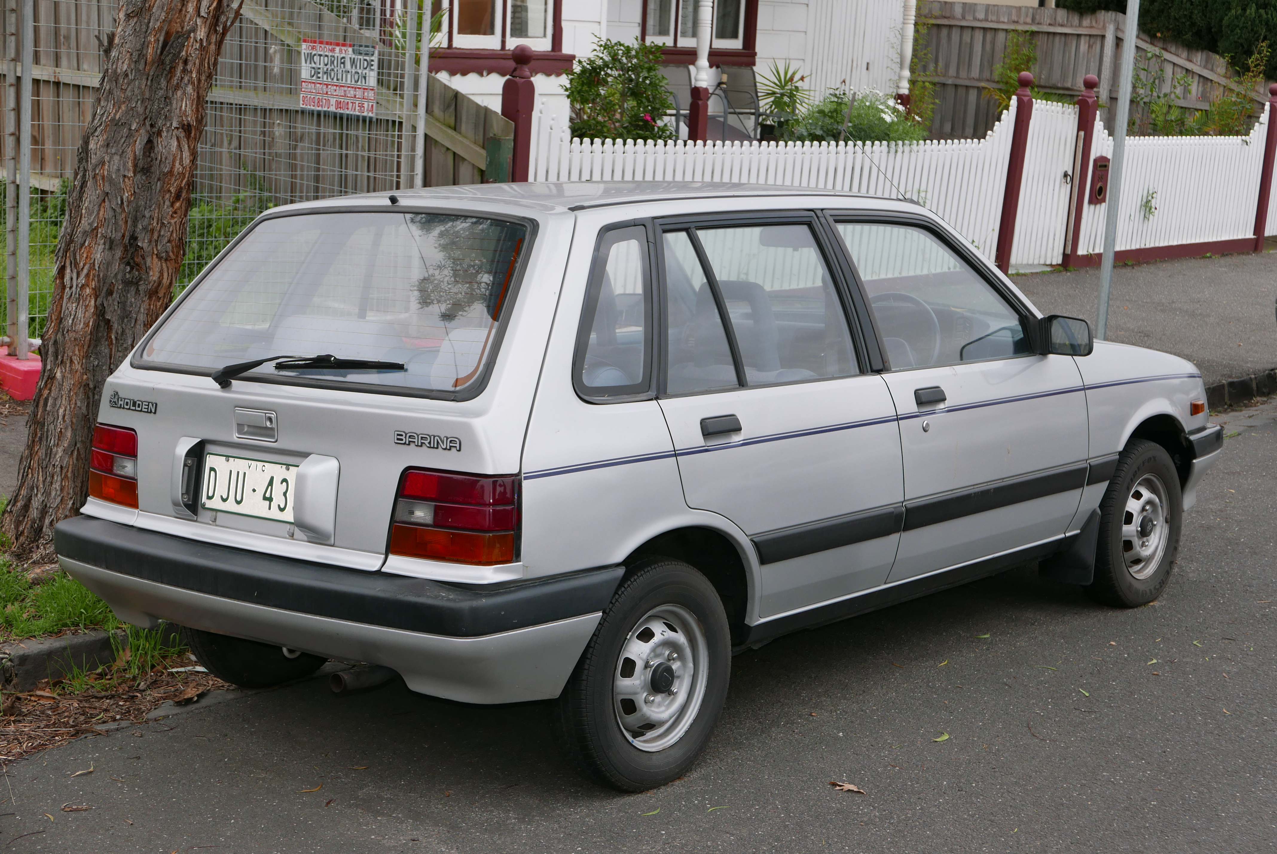 1988 Holden Barina (ML) 5-door hatchback. Photographed in Fitzroy North, Victoria, Australia. Vehicle registration enquiry results Jurisdiction Victoria Registration DJU433 Chassis code Not available Engine code G13A510063 Compliance date Not available Year of manufacture 1988